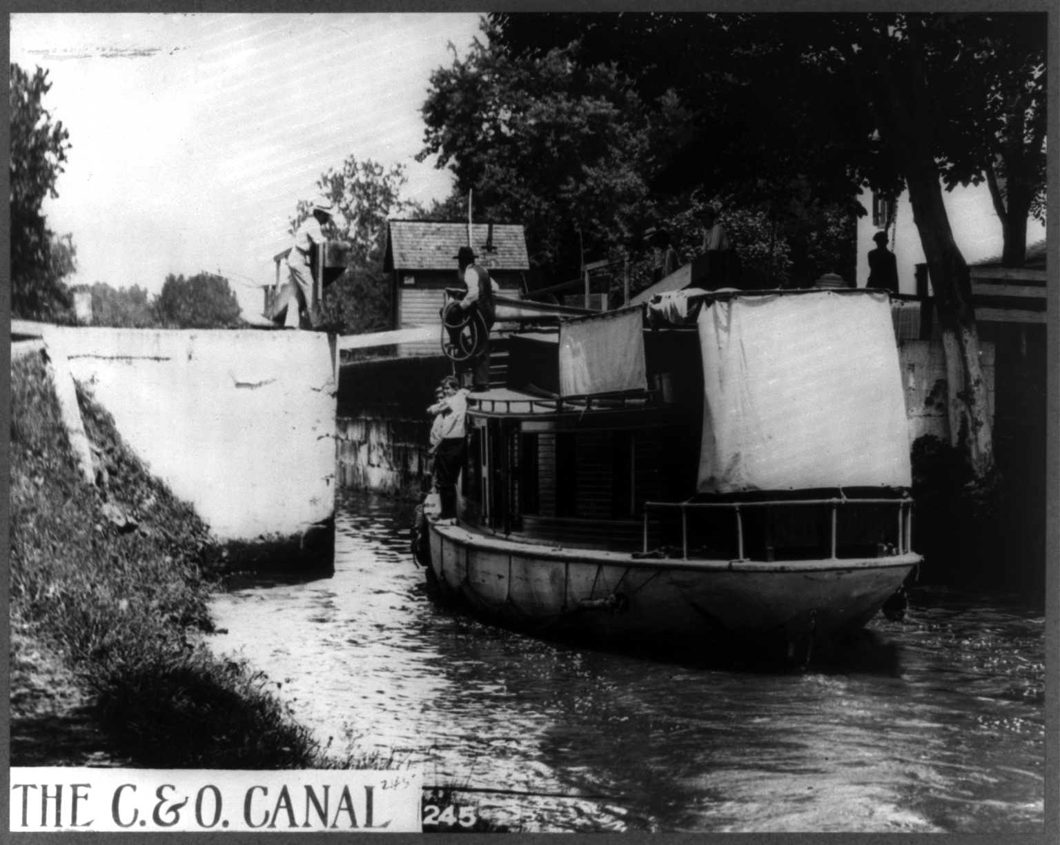 Boat entering C&O Canal Lock (Anyone know which lock this is?)